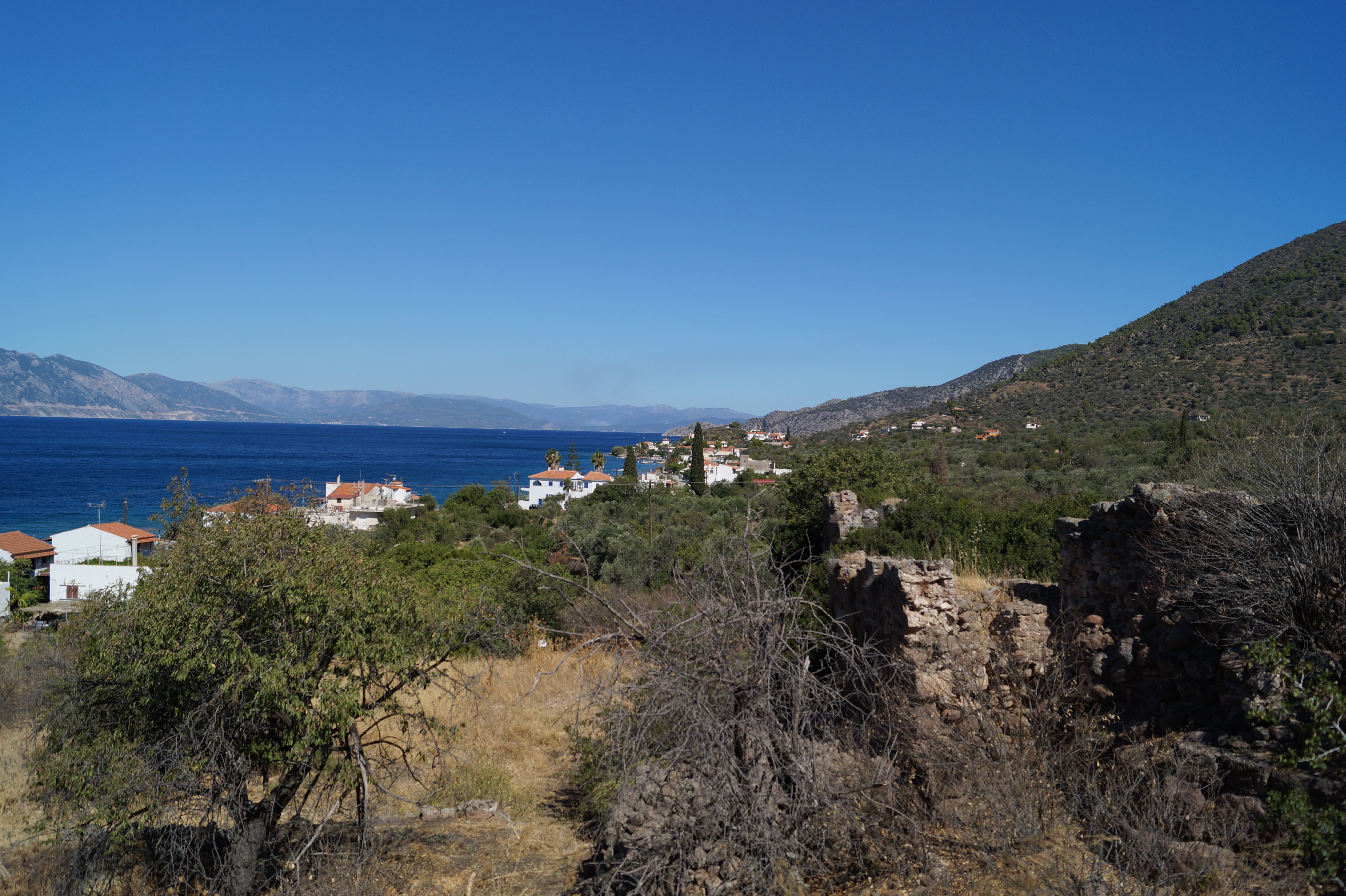 Acropolis Palaiokastro, Methana, Greece: View from the acropolis to the north-west on the village of Vathy.